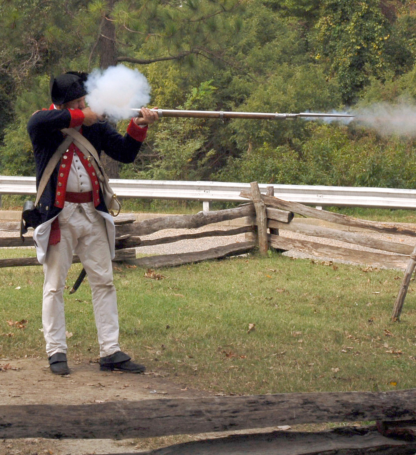 061019-N-4821D-693 Yorktown, Virginia - Retired Chief Aviation Structural Mechanic Don Reimert, a historical interpreter, fires a flintlock musket during a demonstration. The event was held as part of the 225th anniversary of the Revolutionary War Yorktown Victory Celebration.